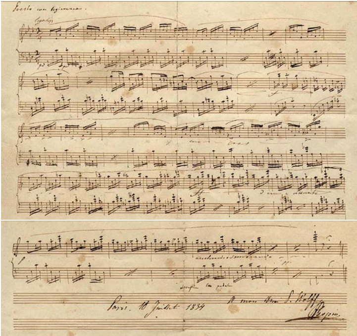 This is a copy of Chopin's Autograph of his Prelude 26 in A major. From IMSLP